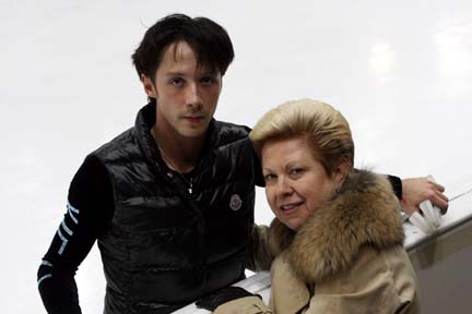 Johnny Weir and Galina Zmievskaya. Grand Prix Final 2007.